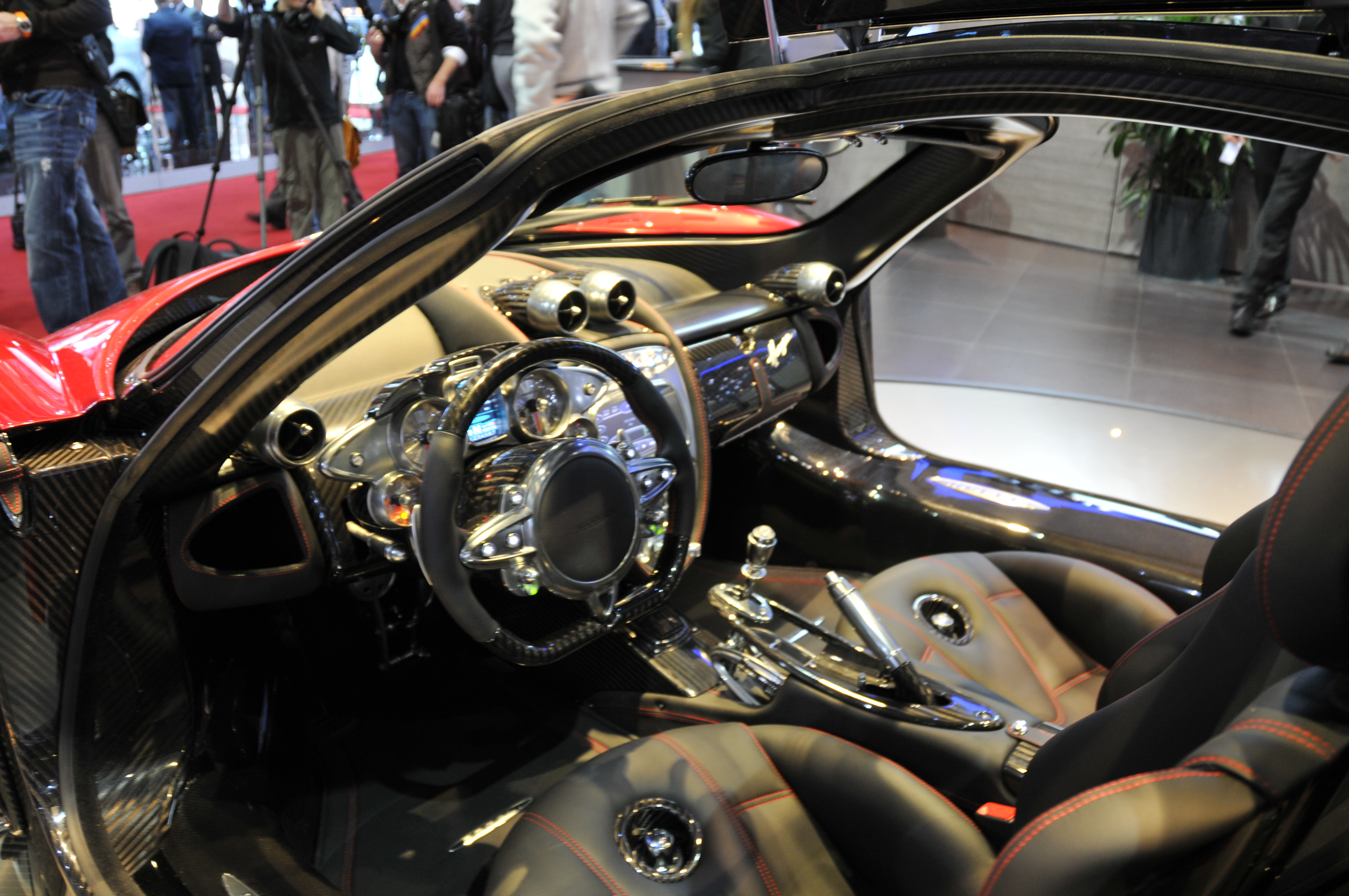 Pagani Huayra presented 2011 at the Geneva Motor Show